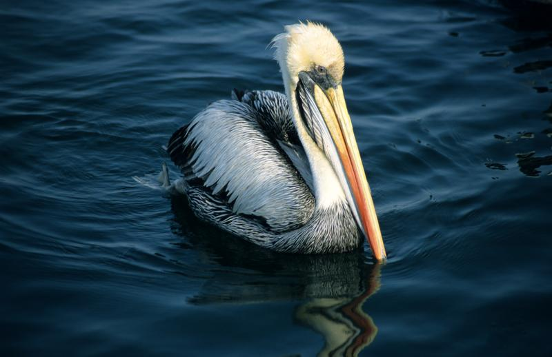 Peruvian Pelican (Pelecanus thagus), photograped in Pisco, Peru